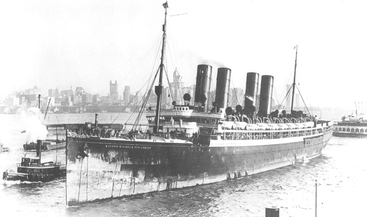 SS Kaiser Wilhelm der Grosse arrived at New York.